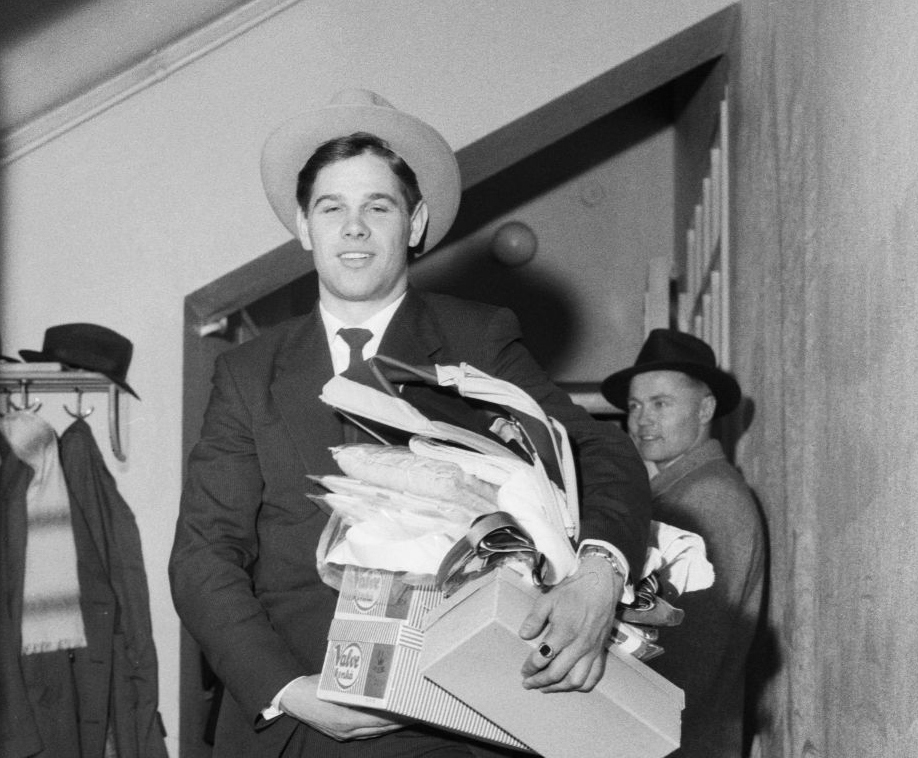 Photograph of the Finnish sprinter Pentti Rekola (1934–2012) leaving for Melbourne Olympic games.